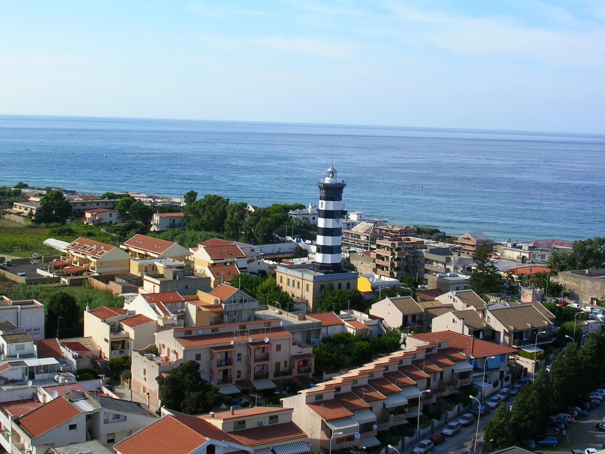 Lighthouse at Torre Faro (Messina-Sicily)